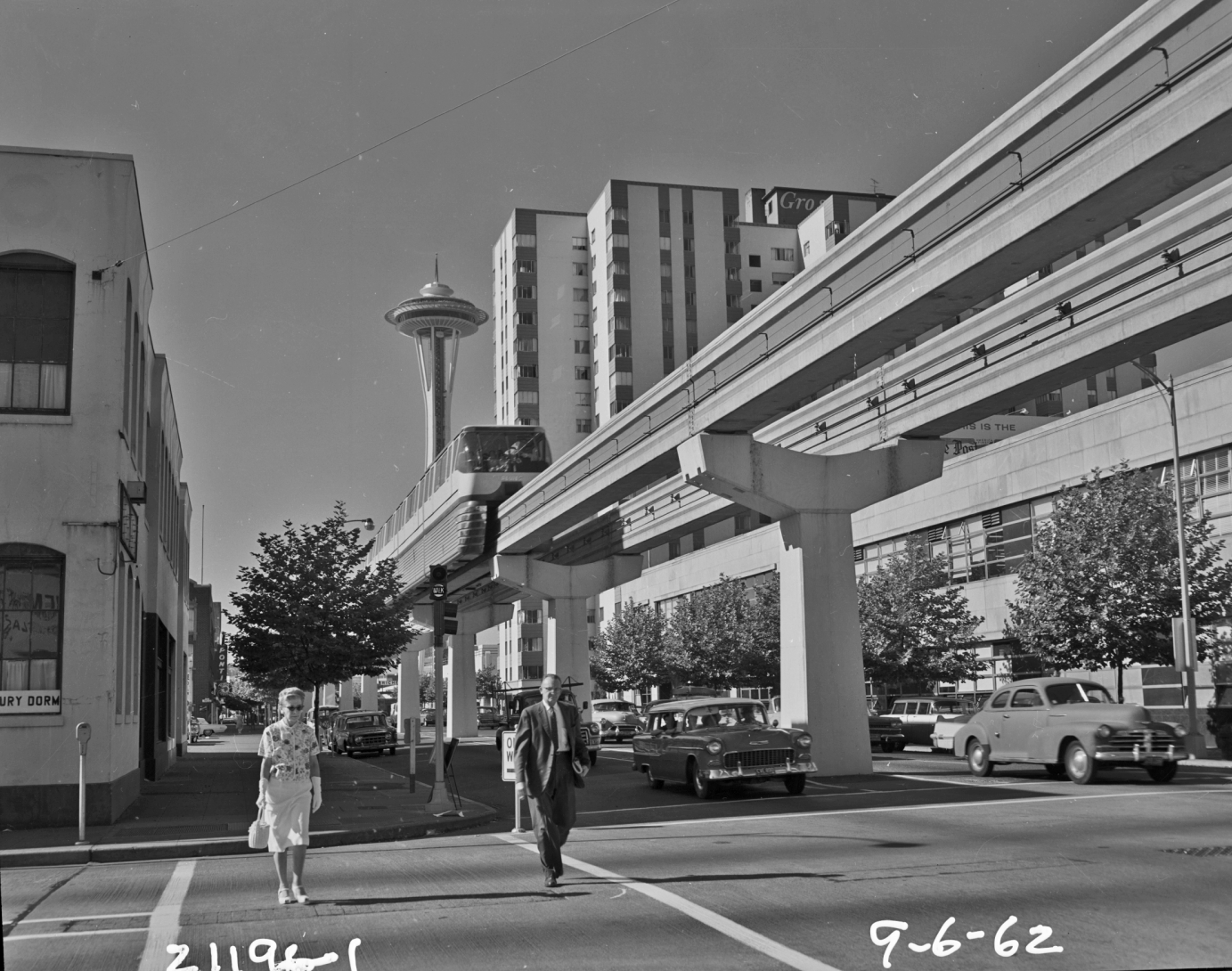 Seattle Monorail and Space Needle, 1962 Item 73485, Engineering Department Photographic Negatives (Record Series 2613-07), Seattle Municipal Archives.